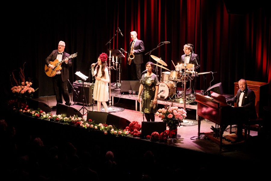 Angelina Jordan and The Real Thing at Cosmopolite. The concert took place on 14. December 2017 in Oslo. Lineup: Angelina Jordan (vocal), Sigrid Brennhaug (vocal), Hermund Nygård (drums), Dave Edge (saxophone), Paul Wagnberg (organ) and Staffan William-Olsson (guitar).